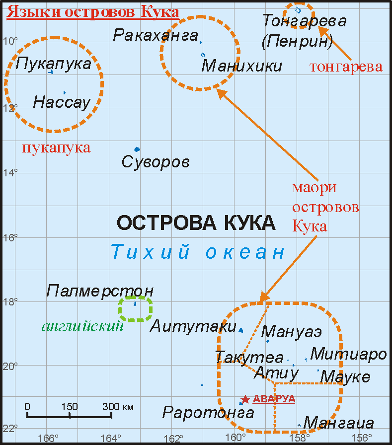 Map of languages of Cook Islands (in Russian).